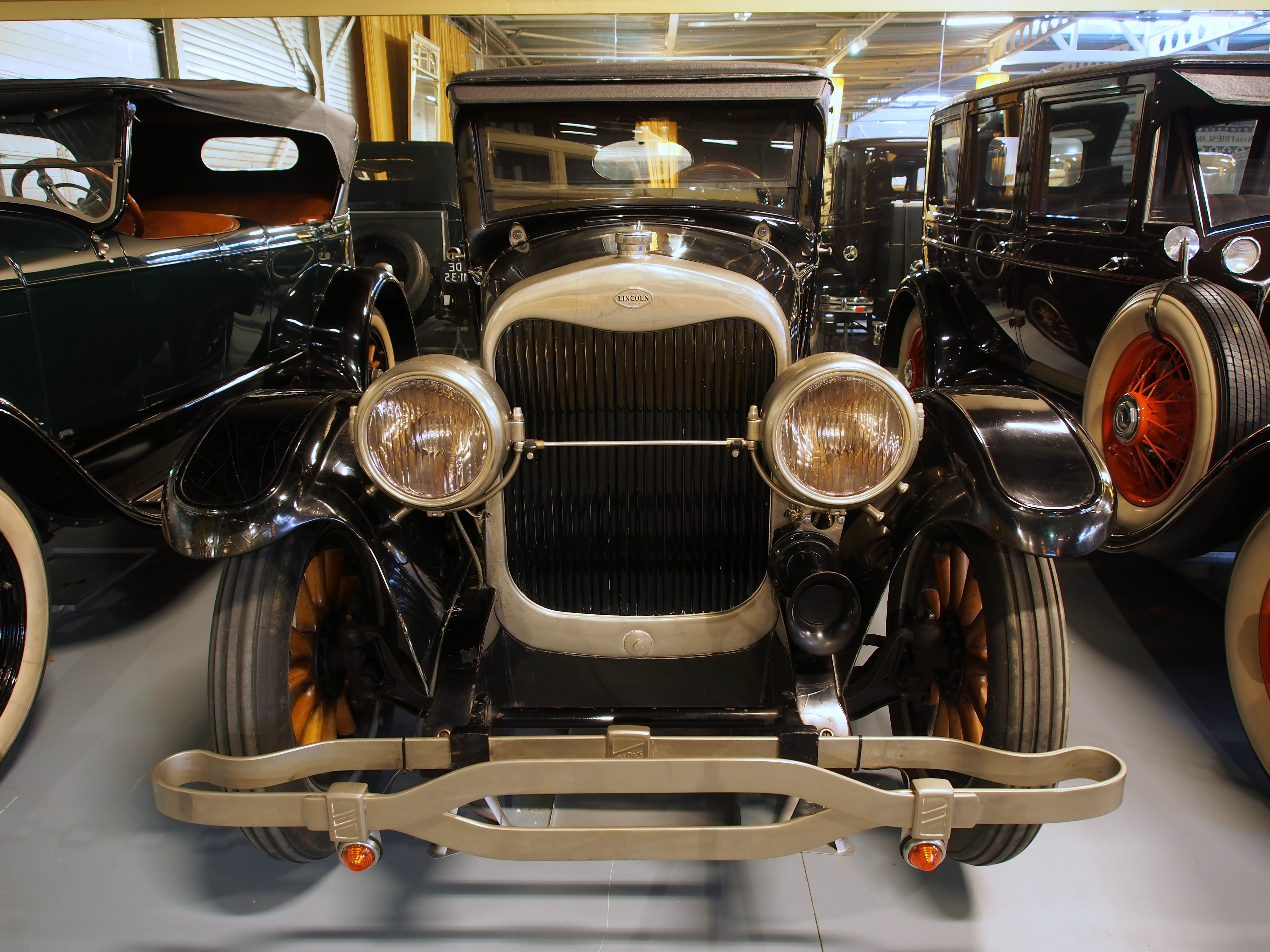 Photographed at the Den Hartogh Ford museum.